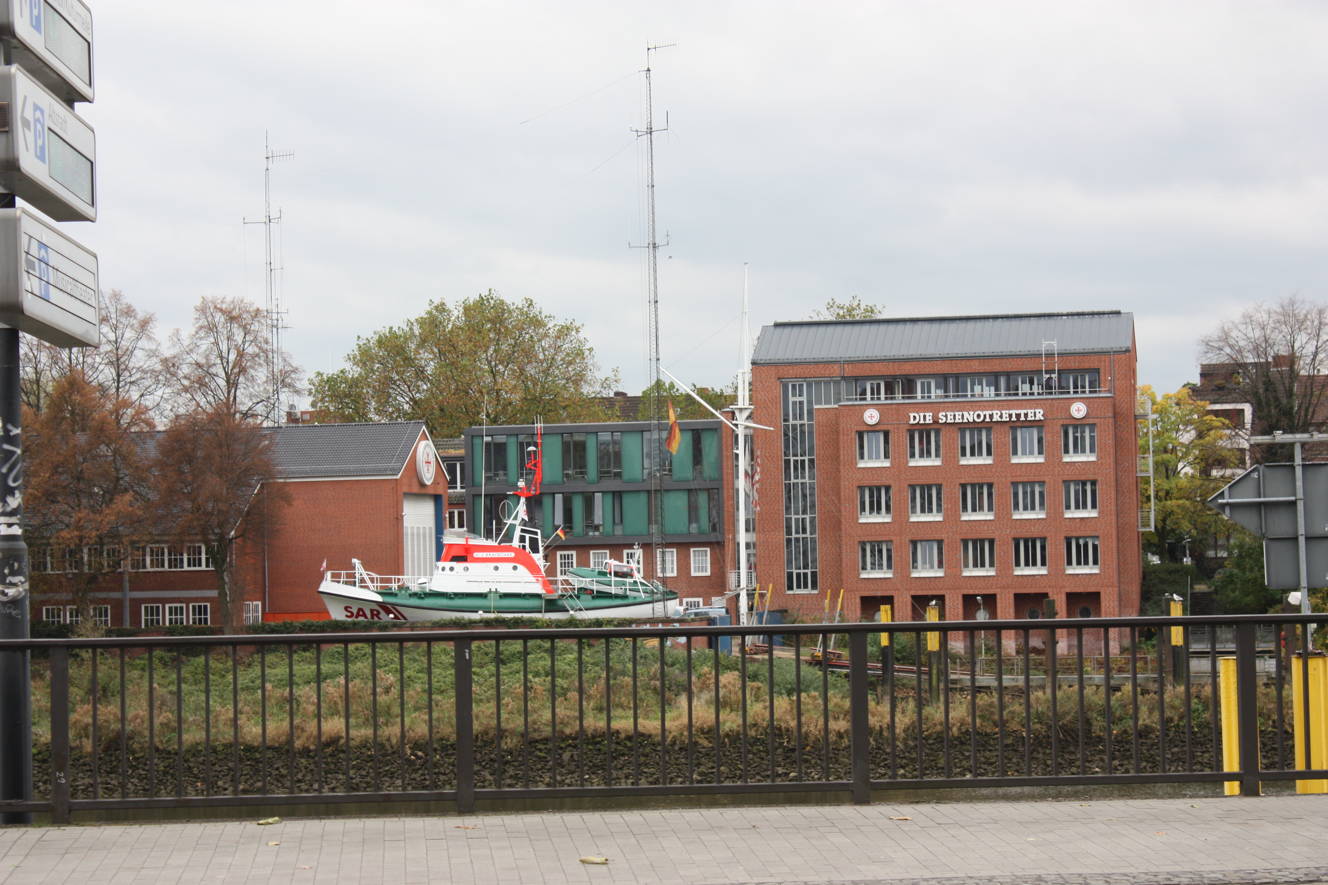 Bremen, seat of the sea rescue